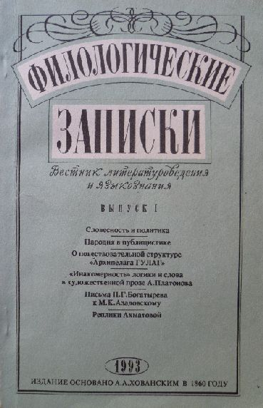 Фил._записки._1993